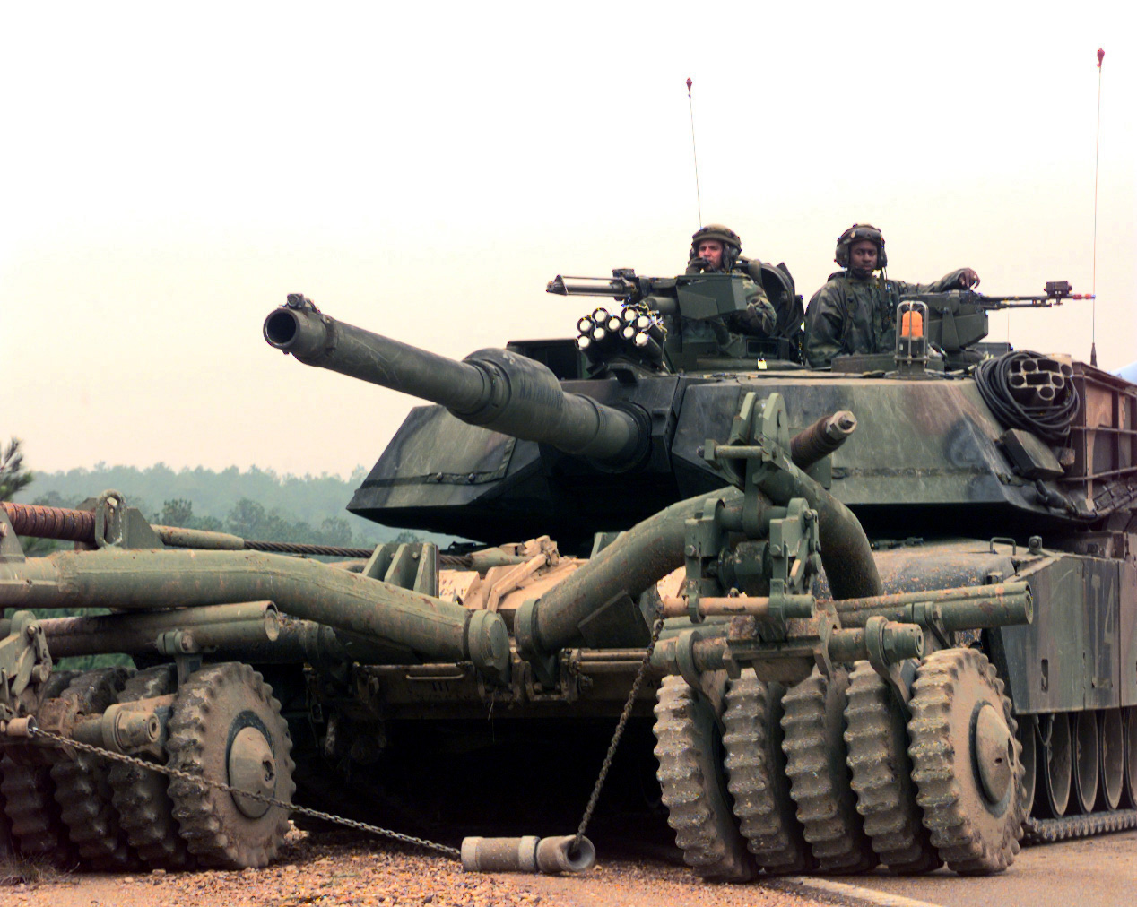 An M1A1 Abrams Main Battle Tank (MBT) with mine clearing attachment from the 3 Squadron, 3rd Armored Calvary Regiment, arrives to escort The World Endeavor Humanitarian Group into a mythical nation's hostile territory at Fort Polk, Louisiana. It was all part of the Joint Readiness Training Center (JRTC) rotation 99-02.